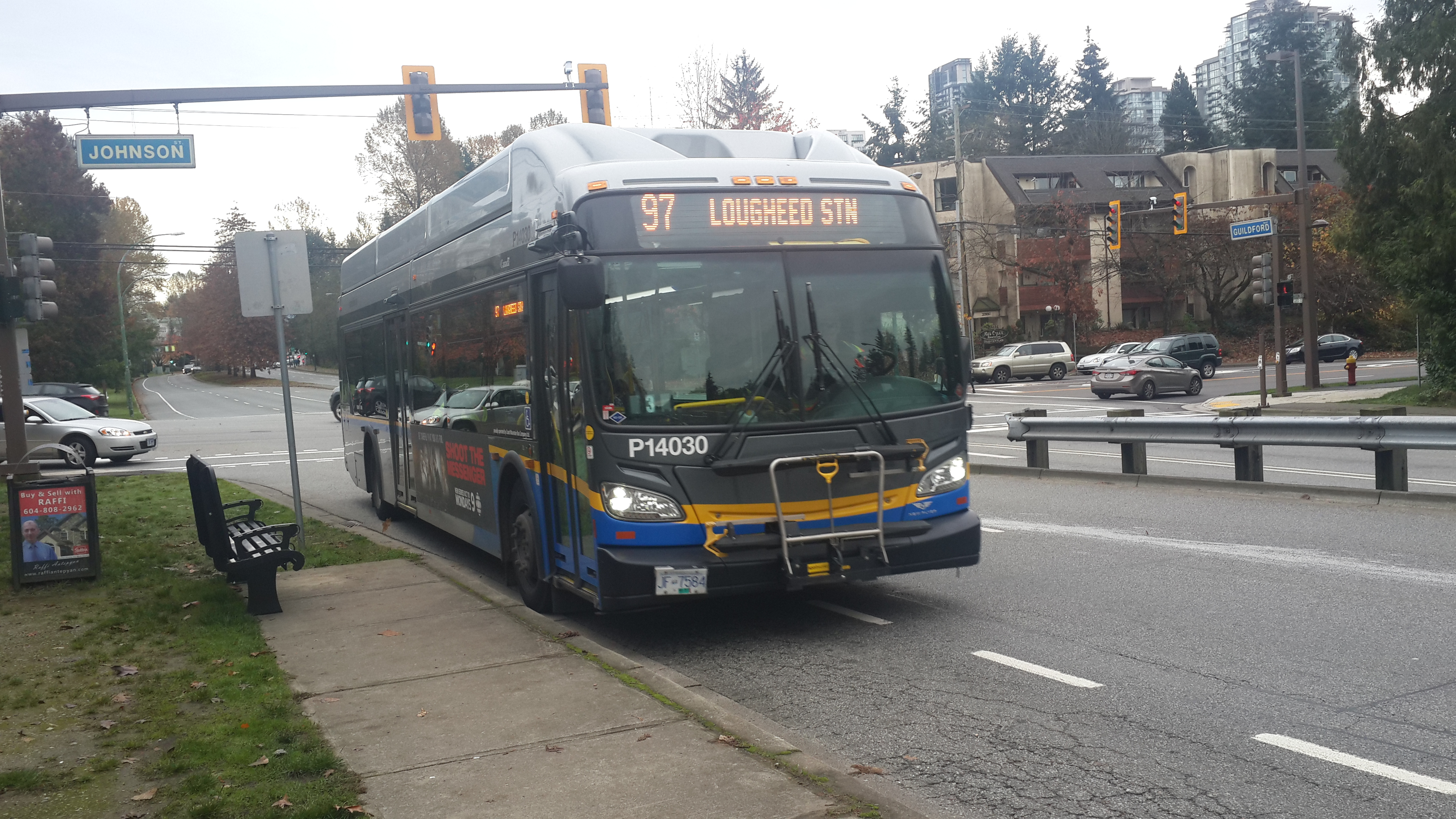 A 97 B-Line (P14030) bus for Translink in Vancouver, B.C.